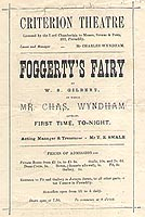 Programme for 'Foggerty's Fairy' (1881) from Simon Moss's 'Gilbert & Sullivan a selling exhibition of memorabilia'